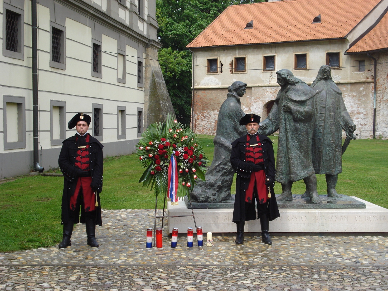 Zrinski guard - historical military unit from Čakovec, northern Croatia (16th century) - at the Zrinski-Frankopan monument during The Medjimurje County Day (30th April 2011)